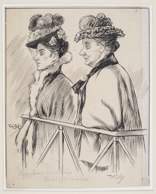 Drawing by William Hartley of Amelia Sach and Annie Walters in the dock